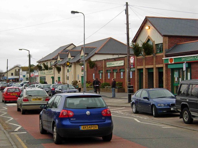 Boverton Road, Llantwit Major Looking along the busy main shopping street of this small dormitory town, which includes the post office and a small shopping centre.